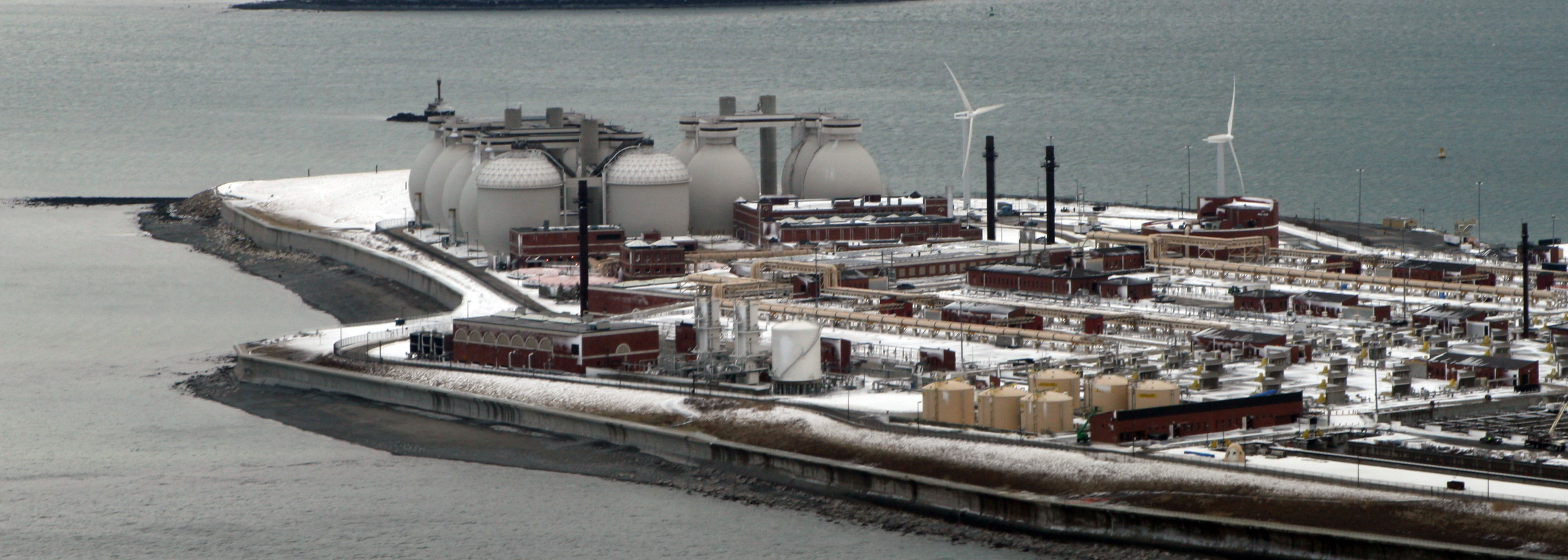 The Deer Island Waste Water Treatment Plant operated by The Massachusetts Water Resources Authority, on Deer Island, one of the Boston Harbor Islands in Boston Harbor. This is the second-largest sewage treatment plant in the country, with twelve egg-shaped "digesters" that turn sewage into the makings of fertilizer.